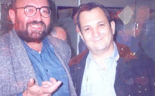 Michael Dorfman and israeli Minister Ehud Barak, Jerusalem 1995